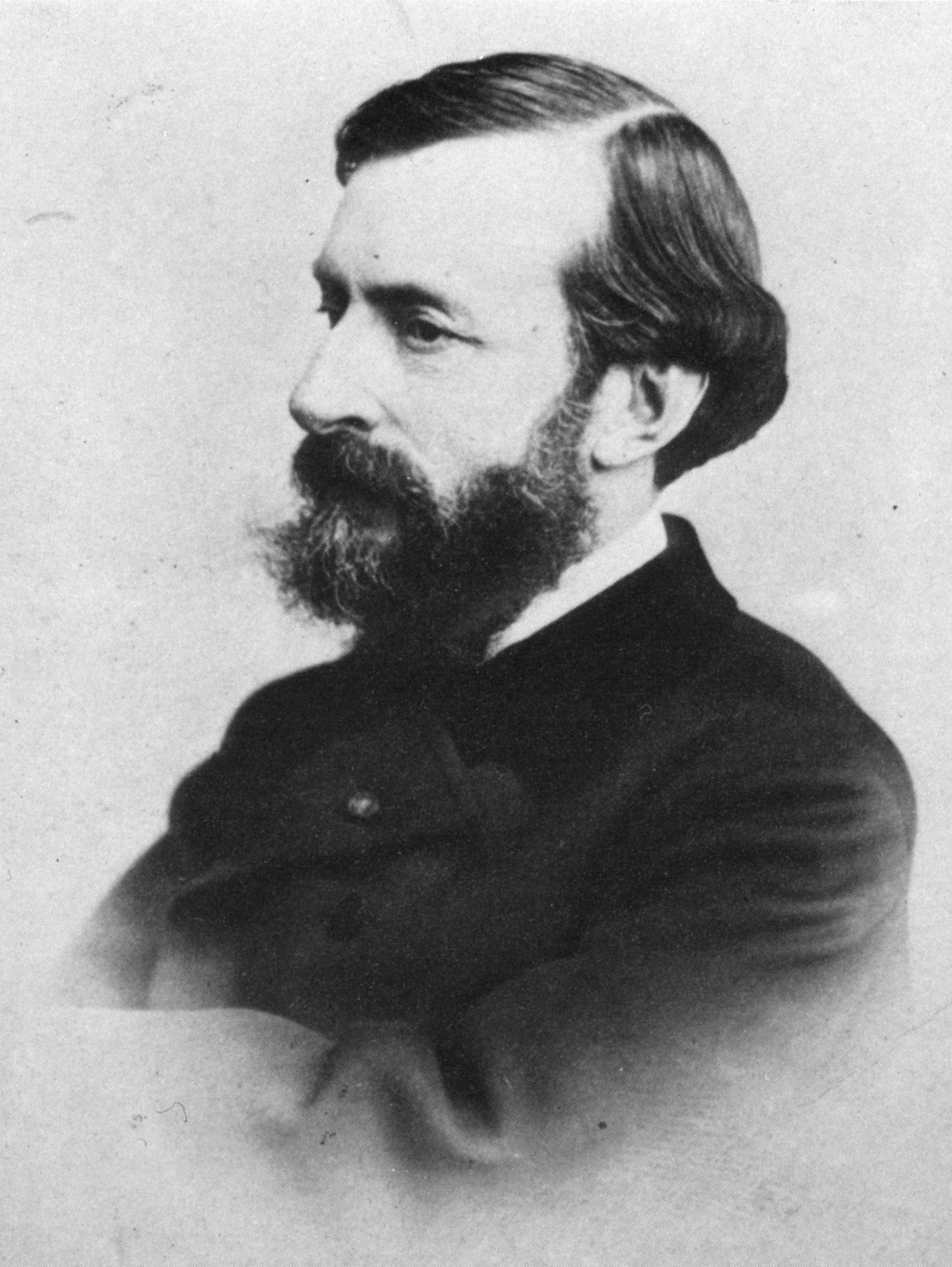 Émile Perrin (1814–1885), director of the Paris Opera from 1862 to 1870